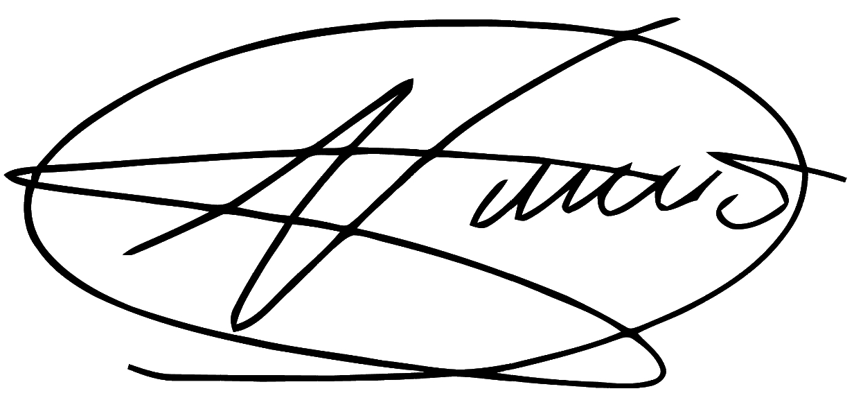 Signature of Novak Djokovic. Under United States Copyright Law, signatures are not eligible for copyright, as they are "titles, names, mere variations of typographic ornamentation, lettering, or coloring"